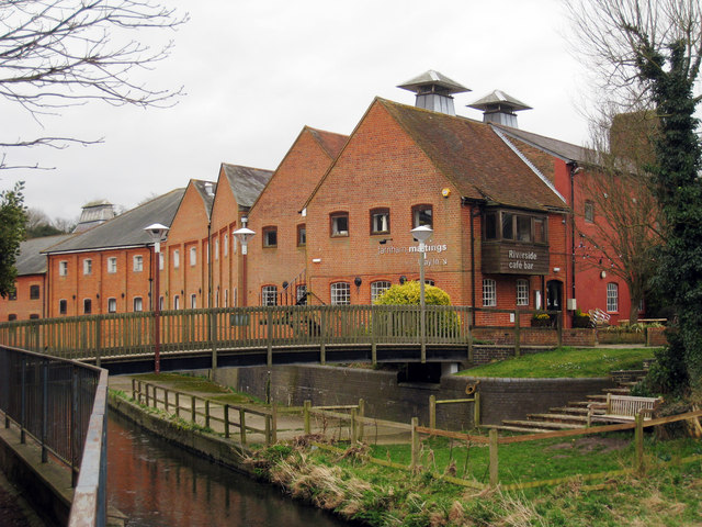 Farnham Maltings, Bridge Square, Farnham, Surrey